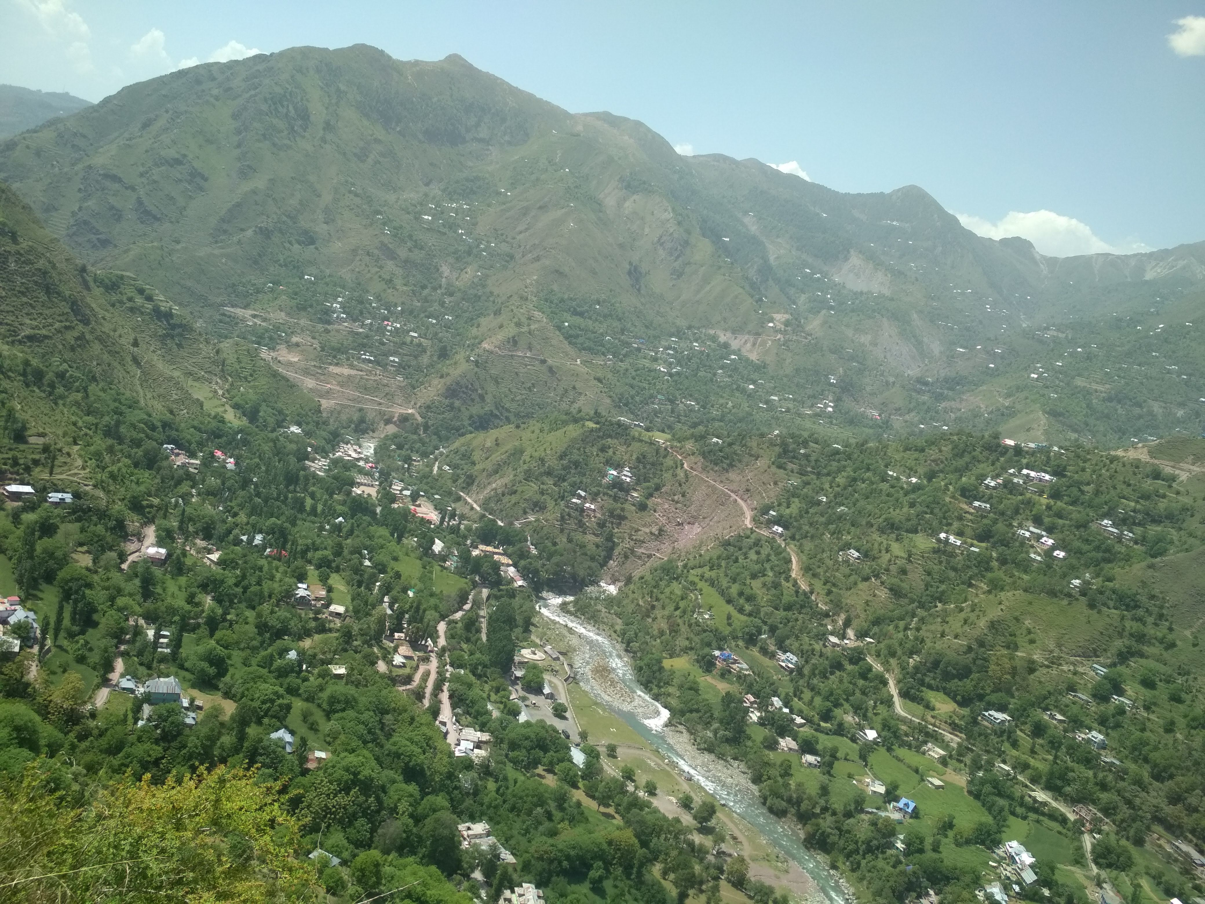 The file represents the beautiful narrow valley with lush green hills.